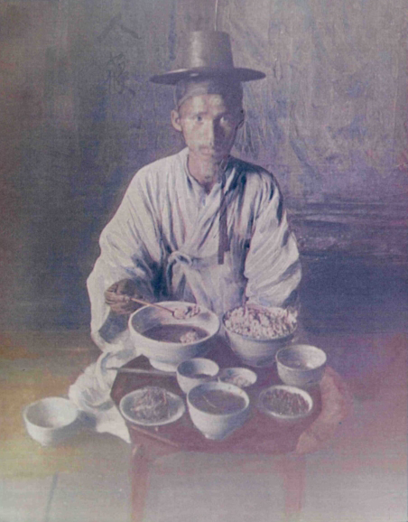 A traveler's meal in the 1900s - unknown artist.